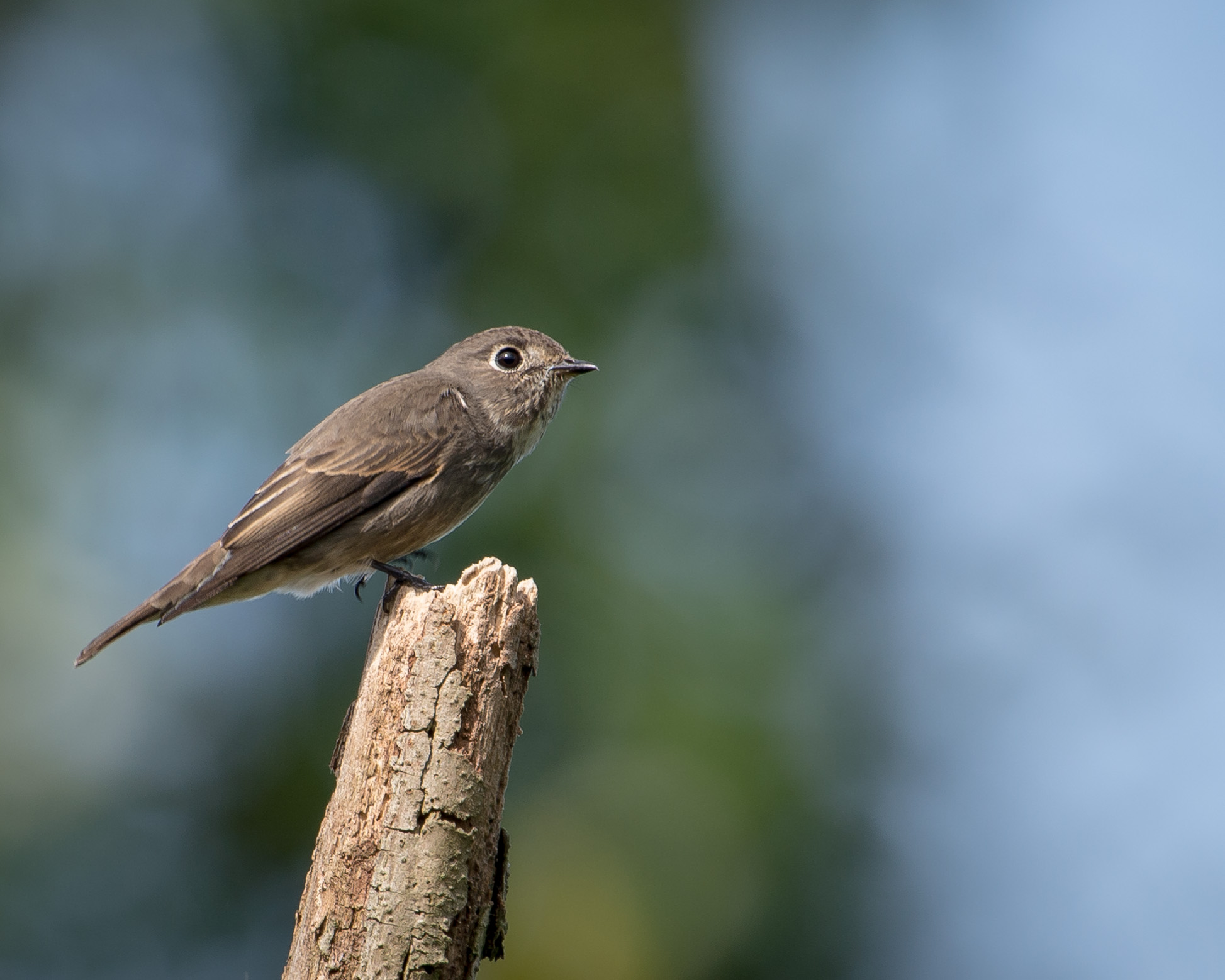 Dark-sided Flycatcher, Kaeng Krachan National Park, Petchburi, Thailand